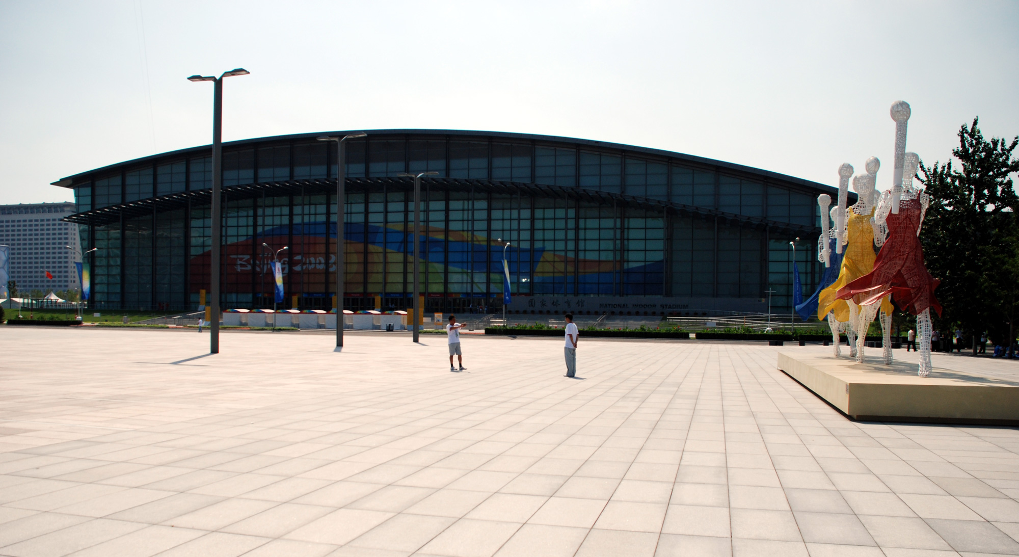 View of the National Indoor Stadium, during the 2008 olympic Games, Beijing